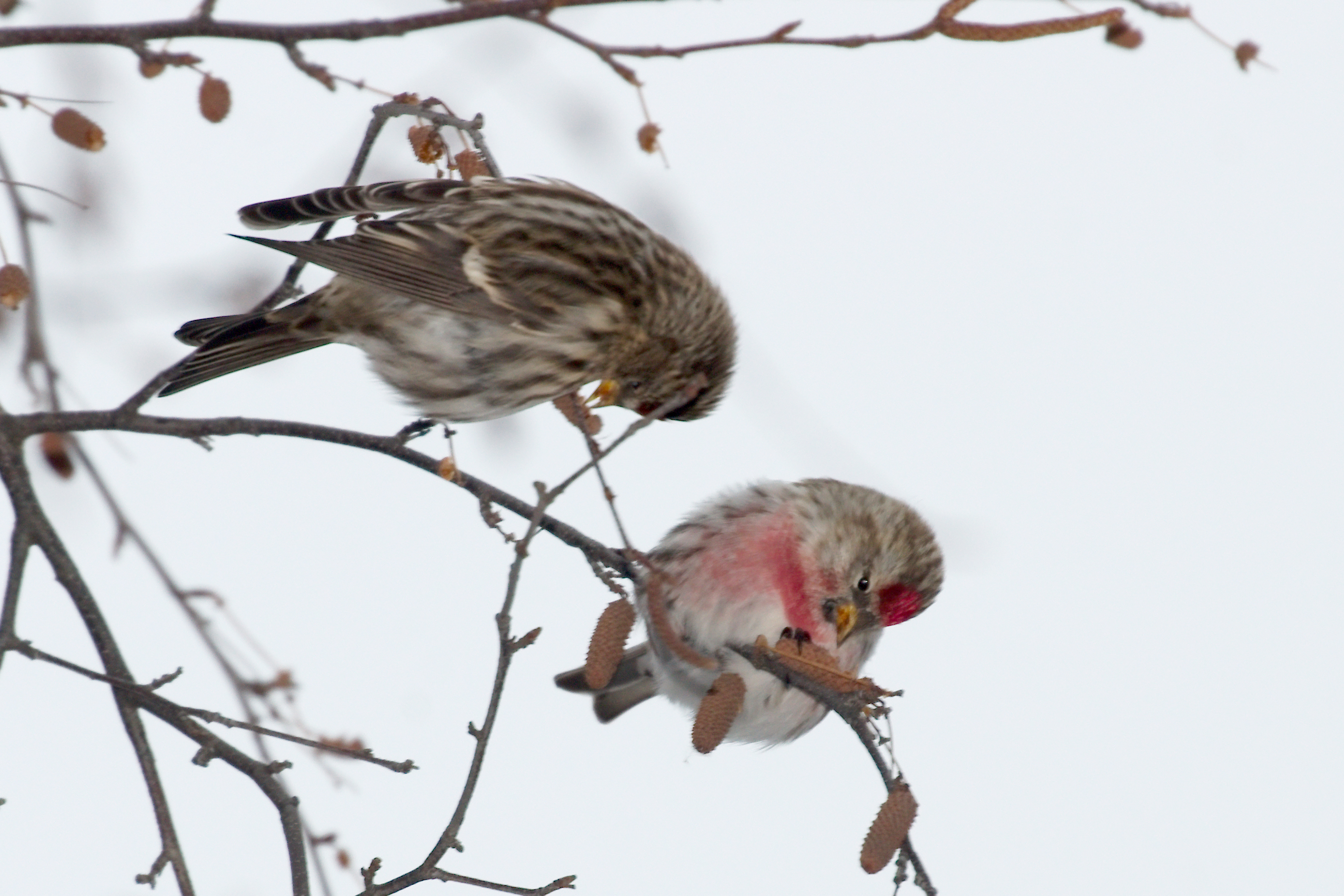 Common Redpolls